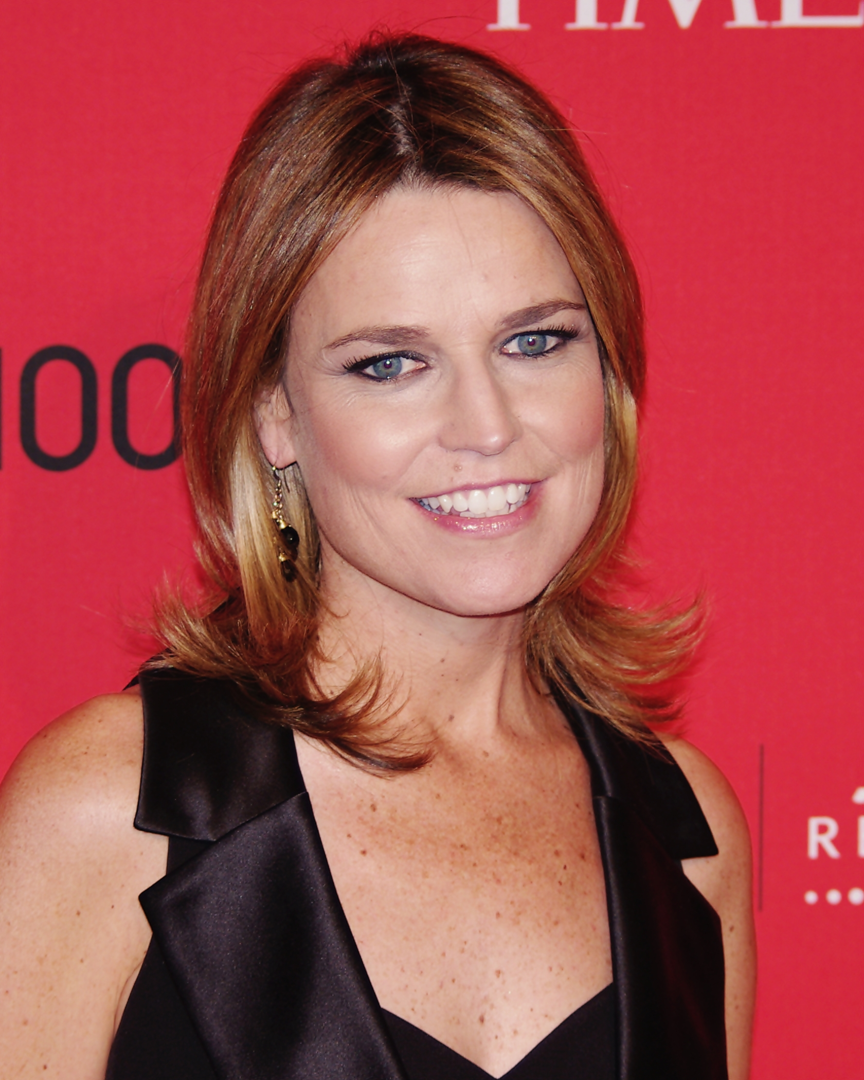 Savannah Guthrie at the 2012 Time 100 gala.